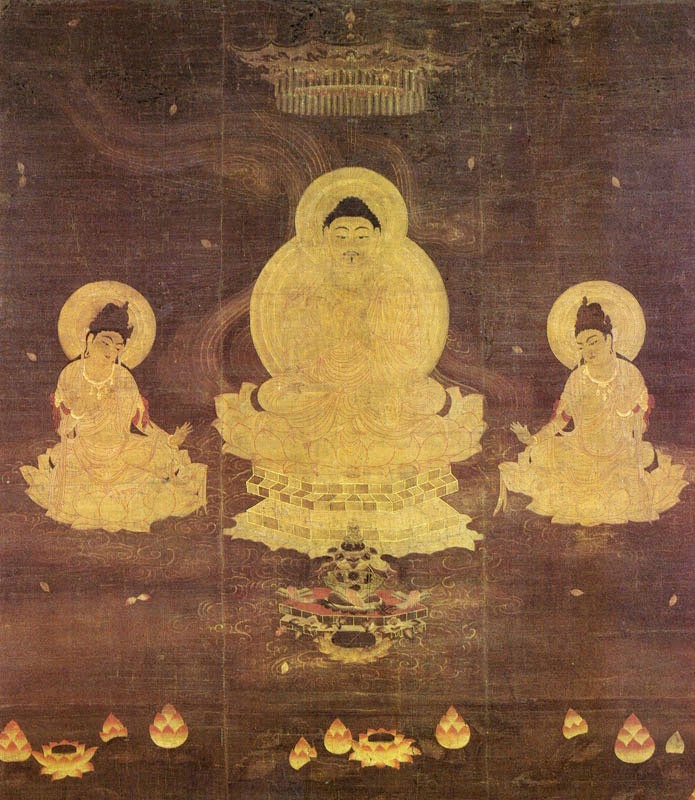 Amida Trinity (絹本著色阿弥陀三尊像, kenpon choshoku amida sansonzō). Hanging scroll, colors on silk. Located at Reihōkan, Mt. Kōya, Wakayama, Japan. The scroll has been designated as National Treasure of Japan in the category paintings.